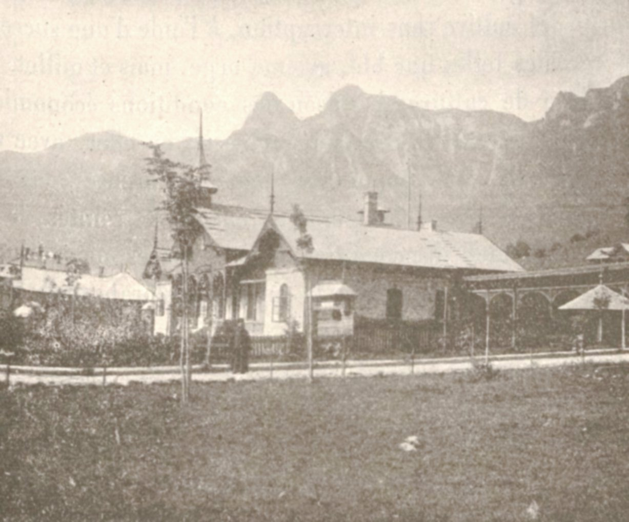 "Model school" of Buşteni (Bushteni). Located on Romania's royal land reserve, it was sponsored by King Carol I.